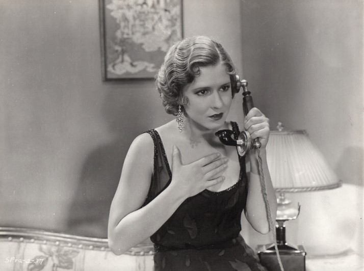 Still of Mae Clarke in the American film The Dancers (1930).